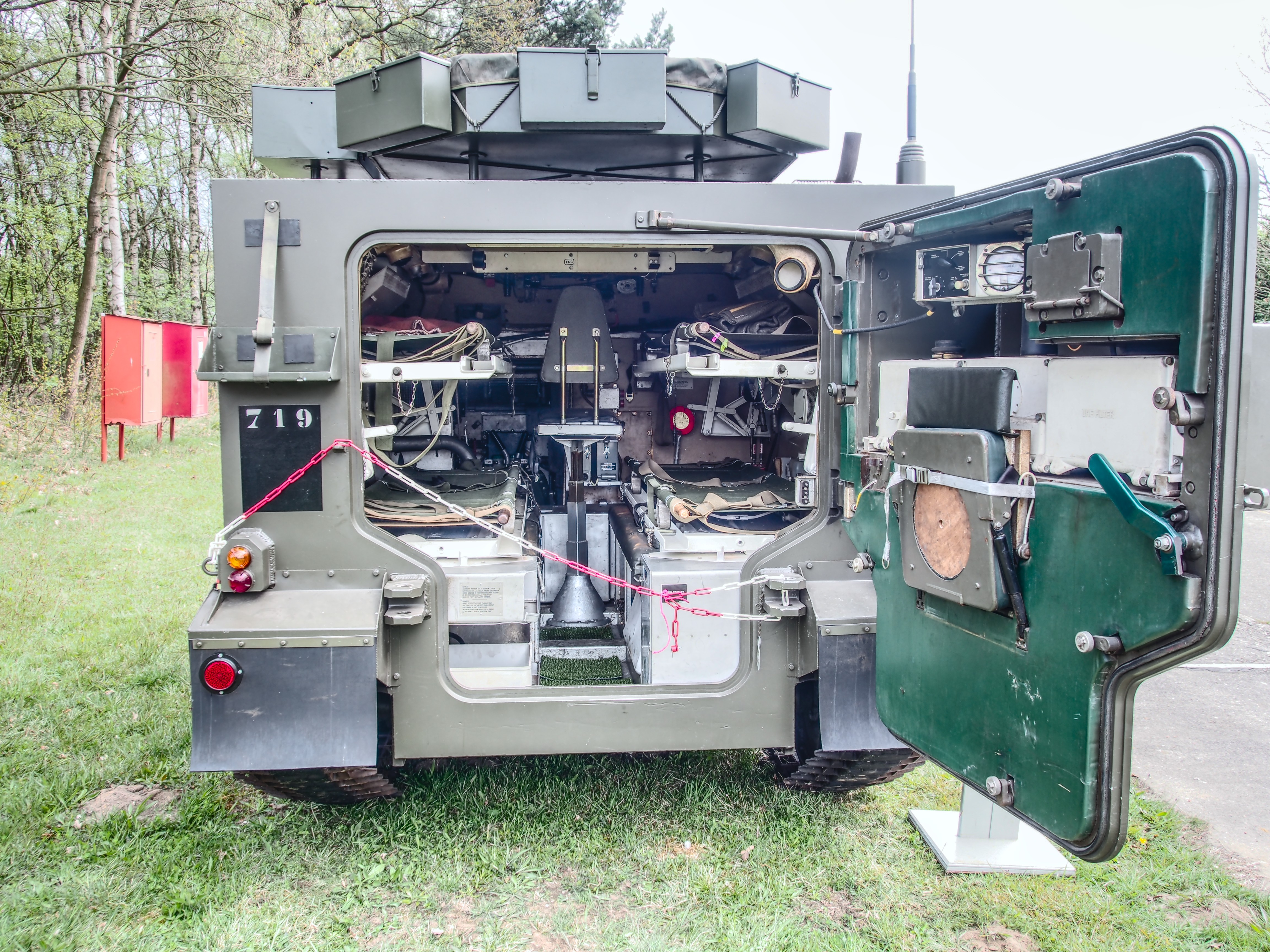 Photographed at the Gunfire Artilleriemuseum Brasschaat, Belgium.